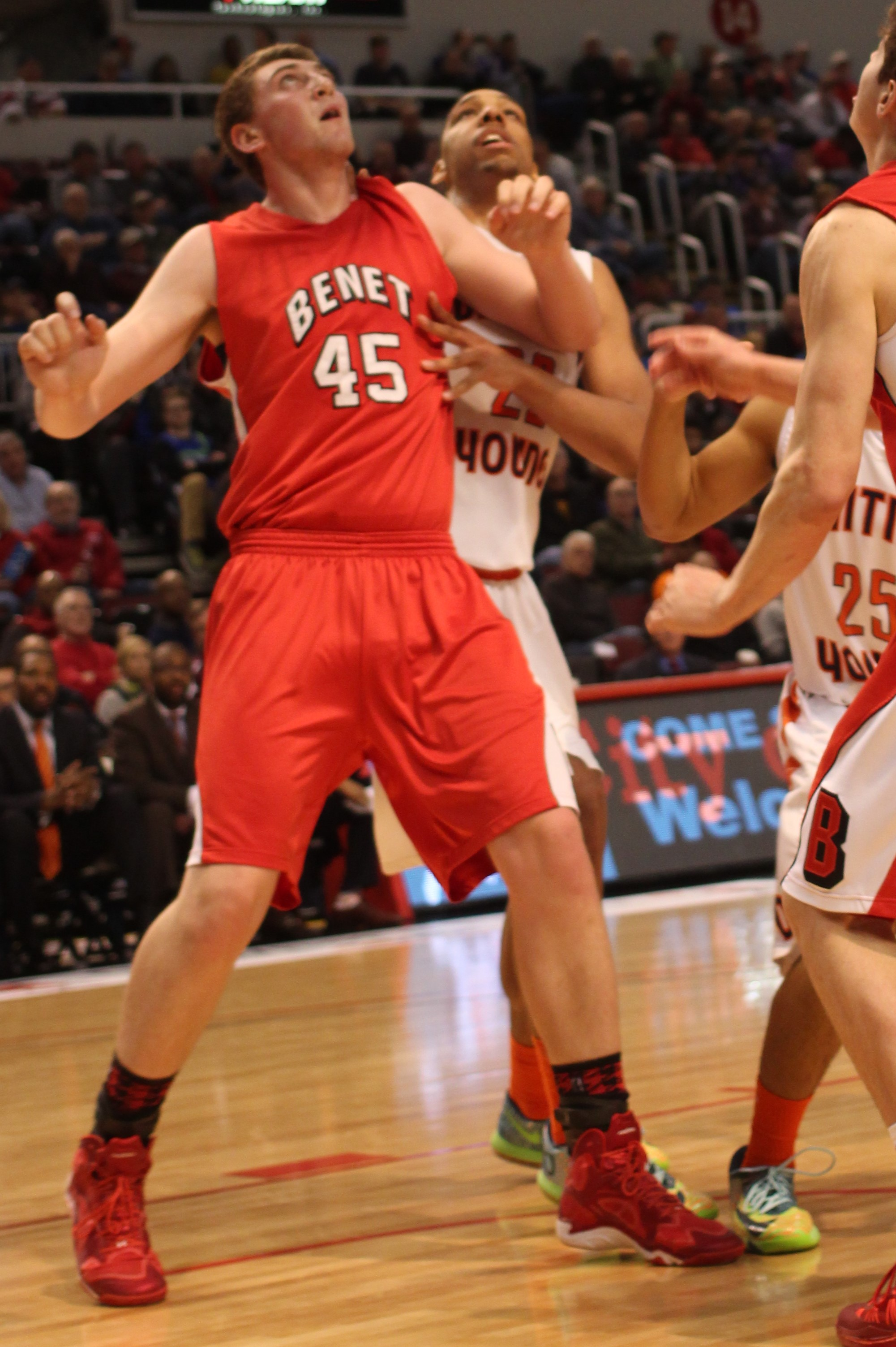 Sean O'Mara boxing out Jahlil Okafor at the 2014 IHSA 4A Young v. Benet championship game